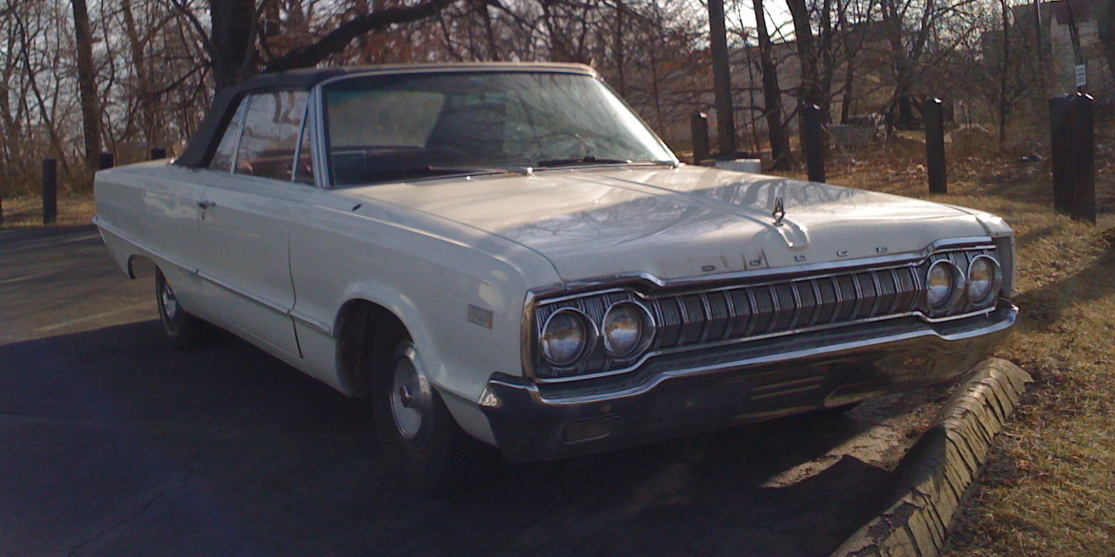 1965 Dodge Polara, white convertible - front view.